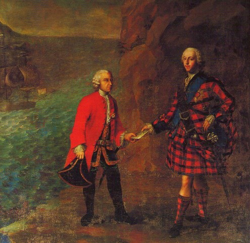 Prince Charles Edward taking leave of Antoine Walsh at Loch nan Uamh in Lochaber